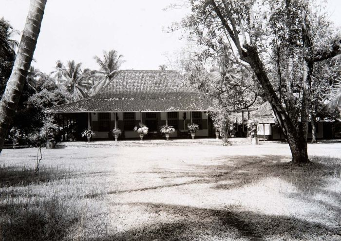 Villa Depan near 'Paal Merah', Batavia